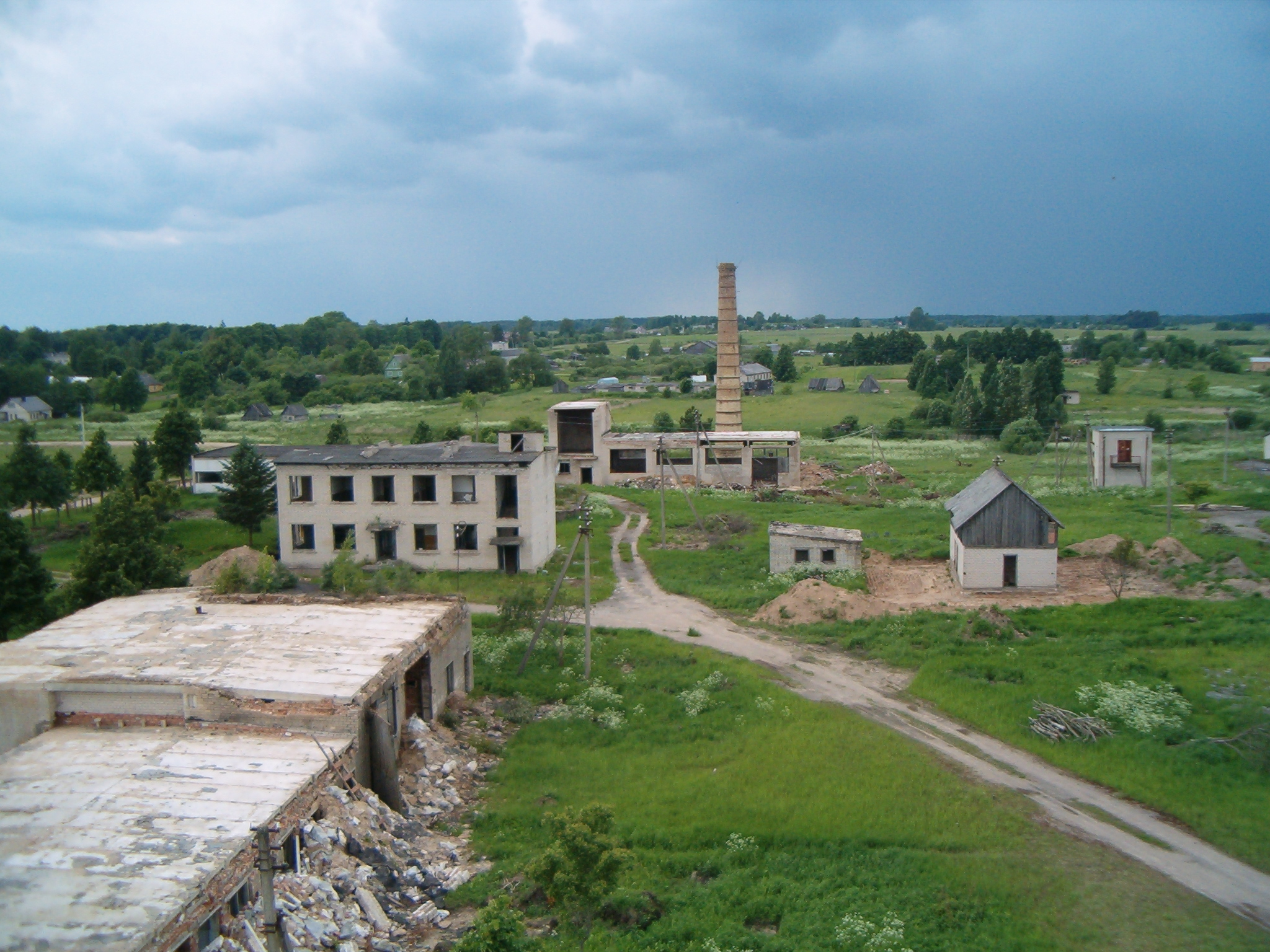 Arnionys I, Lithuania